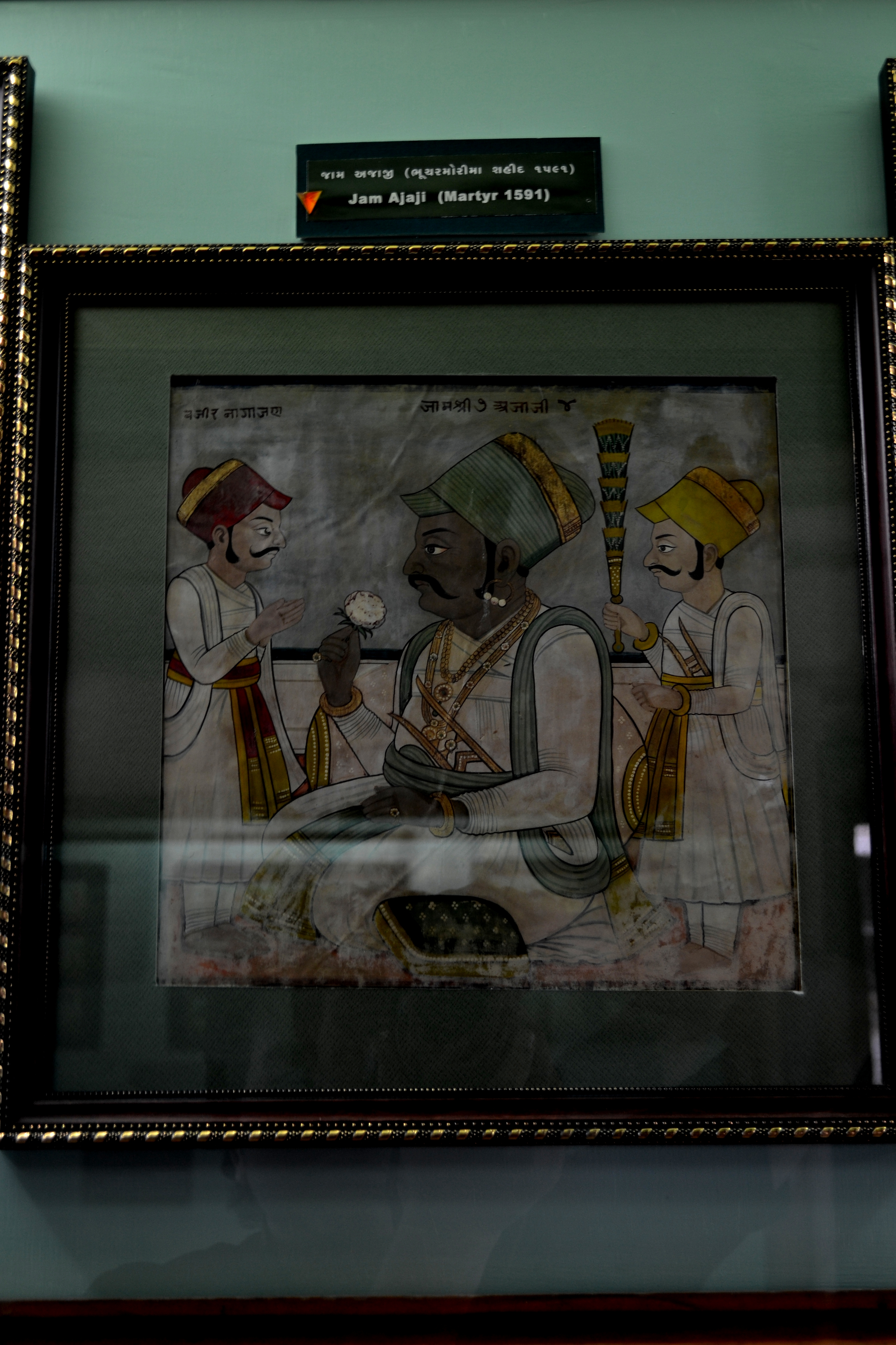 An image of Shri Jam Ajaji.